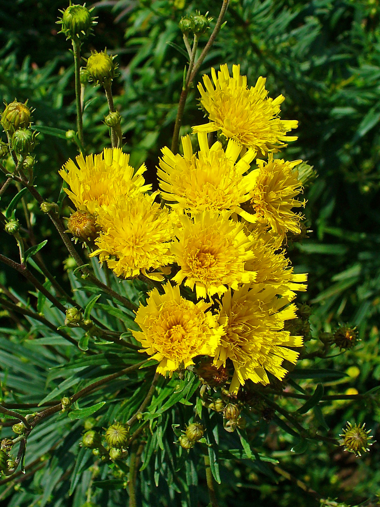 Hieracium umbellatum, Asteraceae, Narrowleaf Hawkweed, inflorescences. The plant is used in homeopathy as remedy: Hieracium umbellatum (Hier-u.)